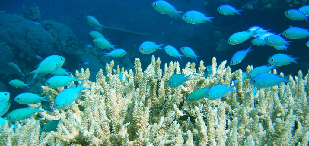 Green Pullers (Chromis viridis, see in fishbase) shelter among branching Acropora sp. coral. "No Name", Ribbon Reefs, Coral Sea